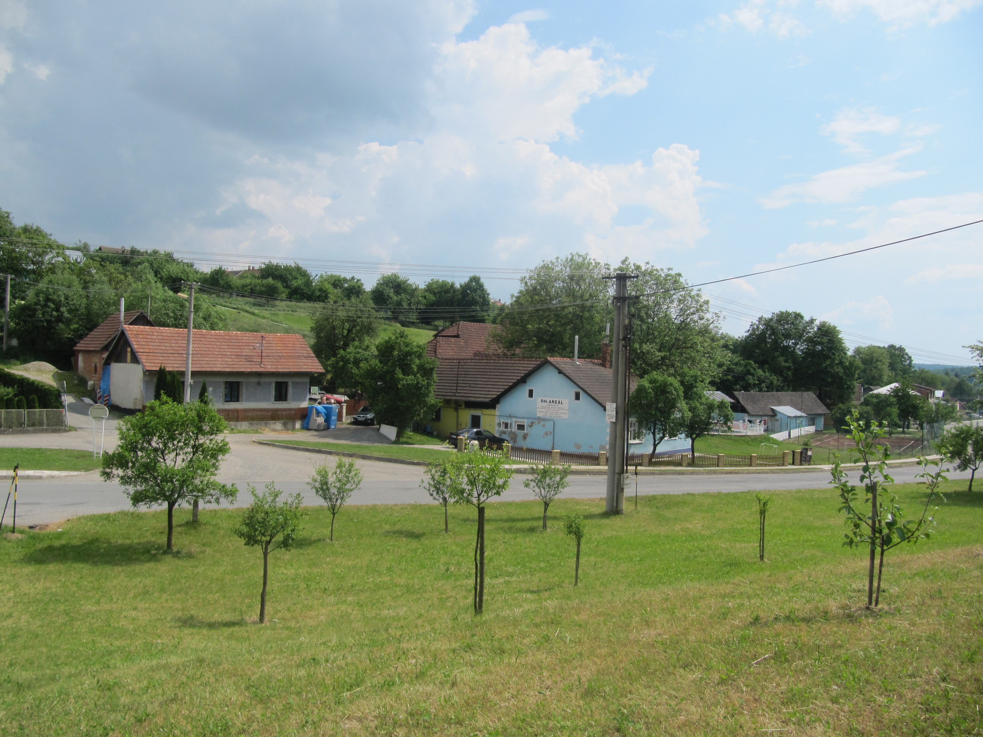 Ostrata in Zlín District, Czech Republic. Center of the village. This photograph was taken within the scope of the third year of the 'Czech Municipalities Photographs' grant.